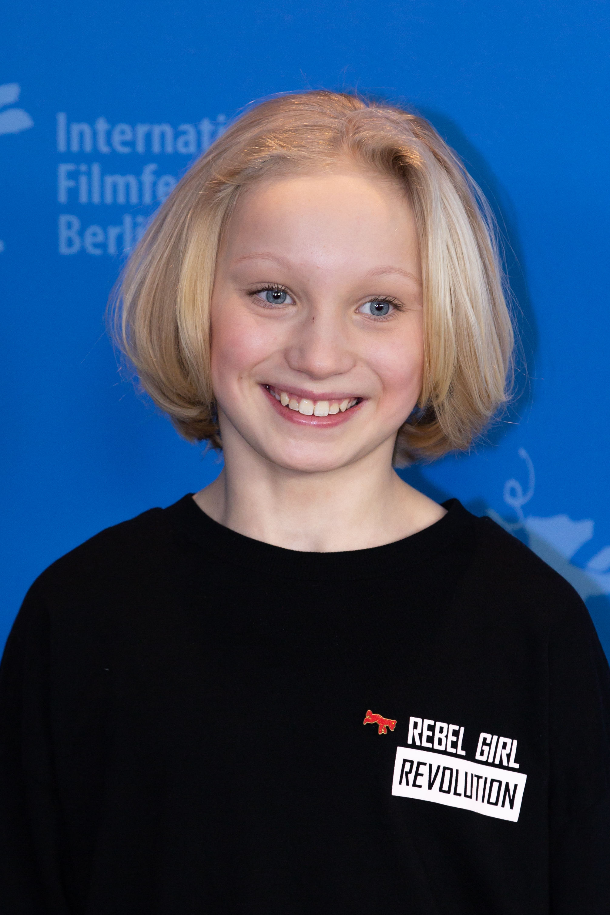 Actress Helena Zengel at the Berlinale 2019